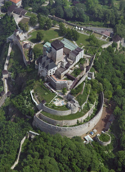 Trenčín Castle, Slovakia, aerial photography